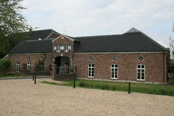 Cultural heritage monument No. 166 in Kempen